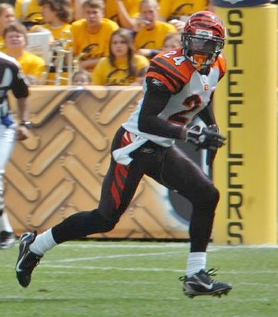 Willie Parker of the Pittsburgh Steelers is tackled during a game against the Cincinnati Bengals. Bengals player Deltha O'Neal looks on.